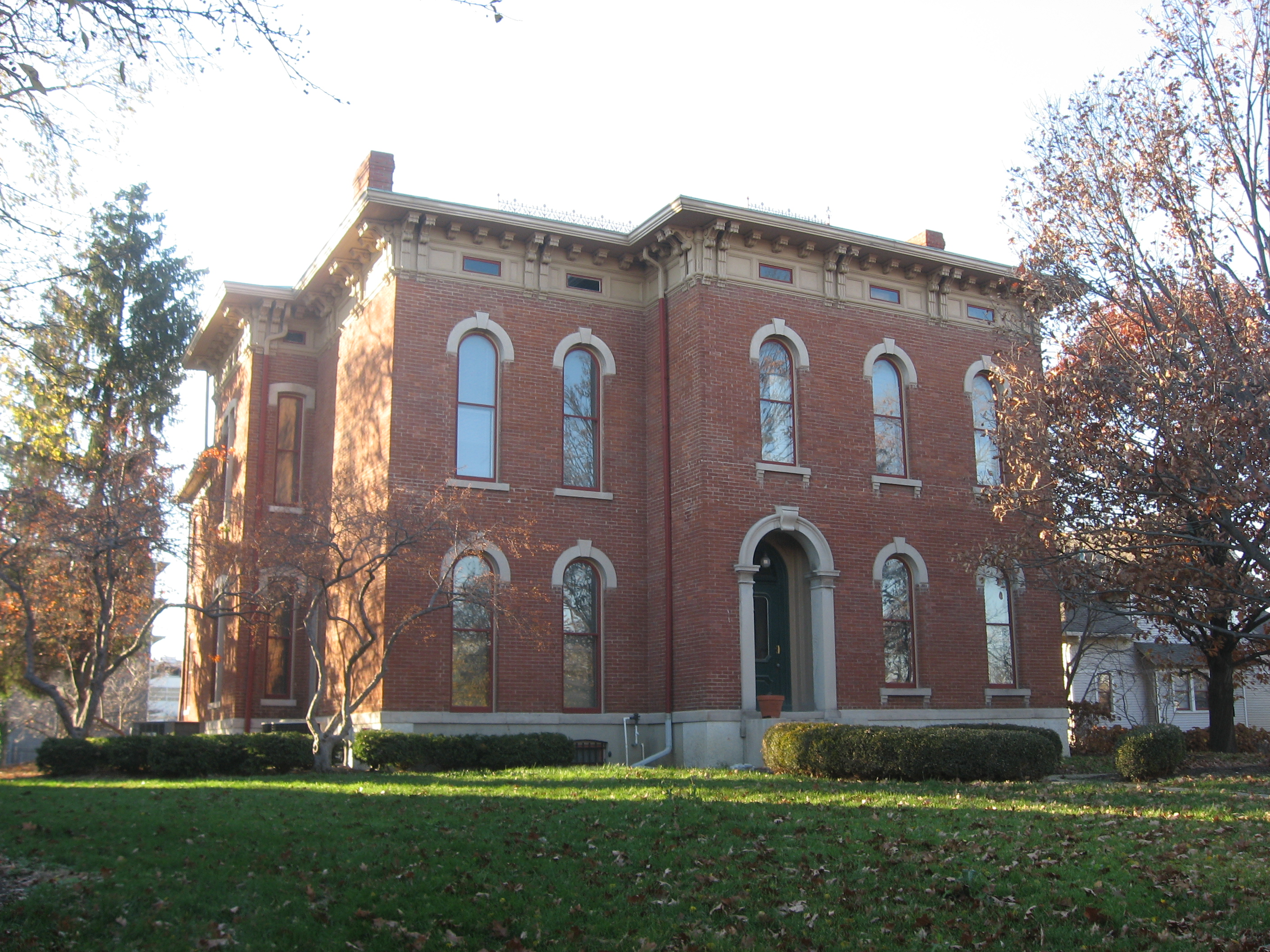 Front of the Byram-Middleton House, located at 1828 N. Illinois Street in Indianapolis, Indiana, United States. Built in 1870, it is listed on the National Register of Historic Places.